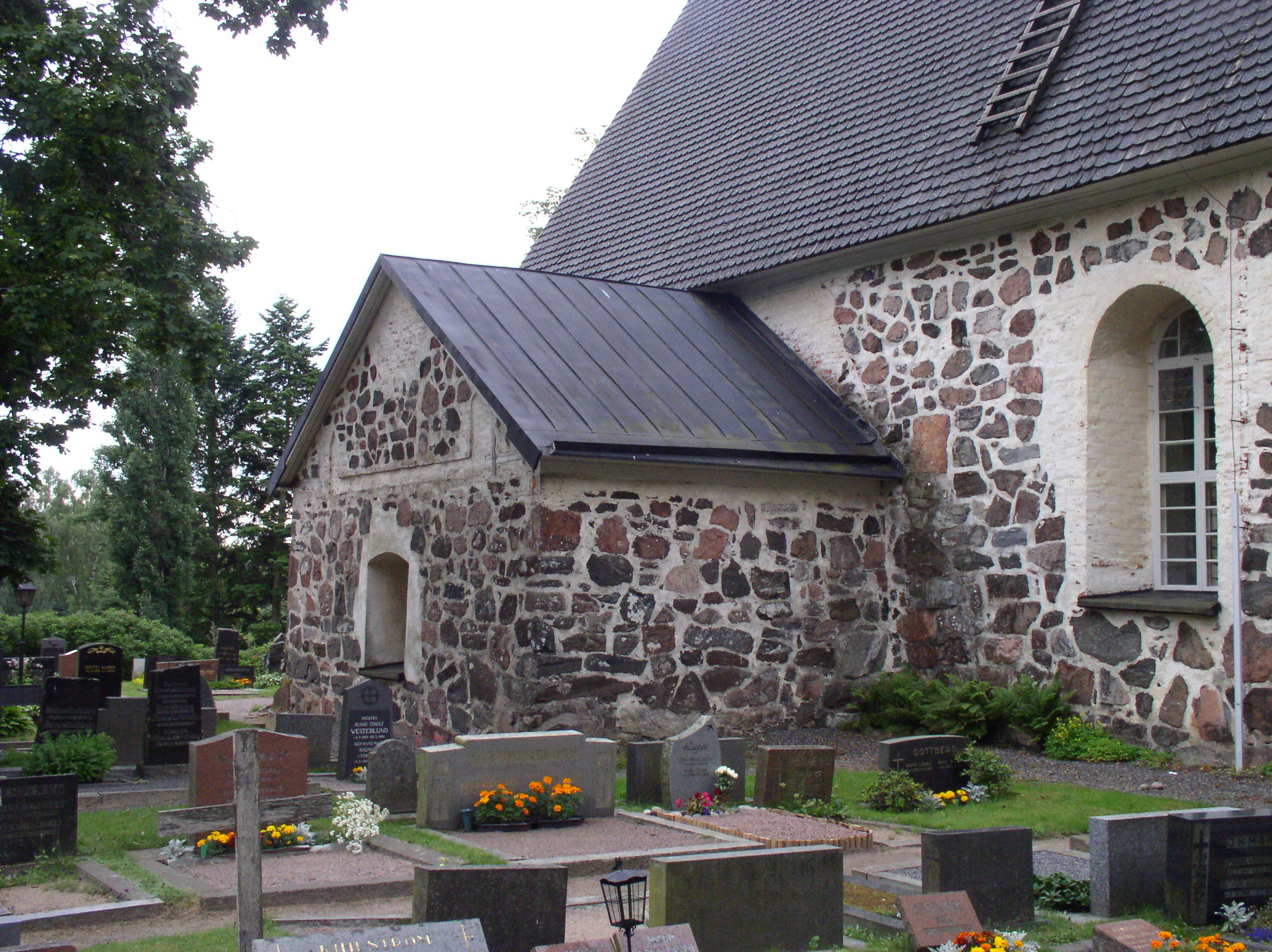 Pohja church in Raseborg (Pohja), Finland.